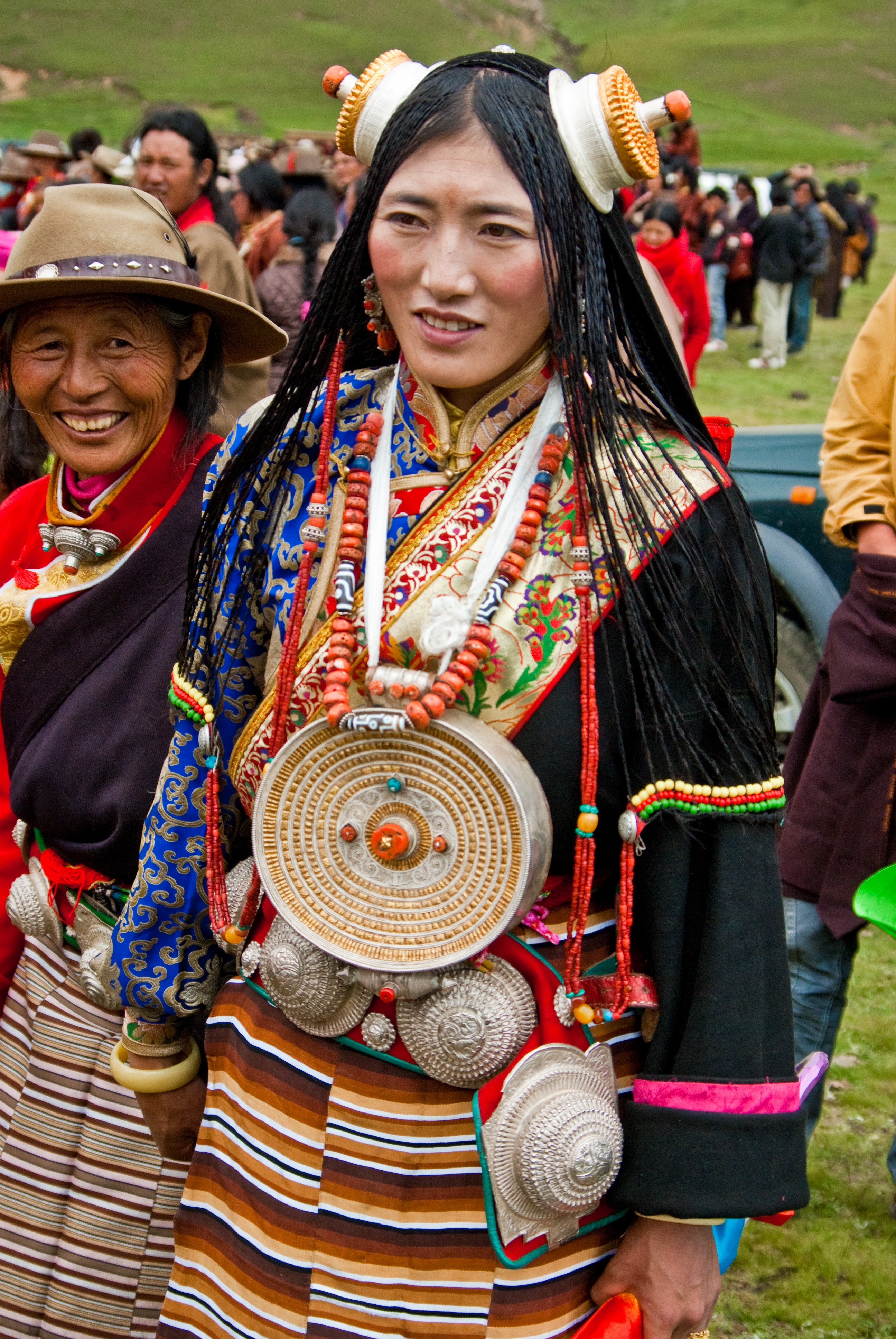 A women in the Kham